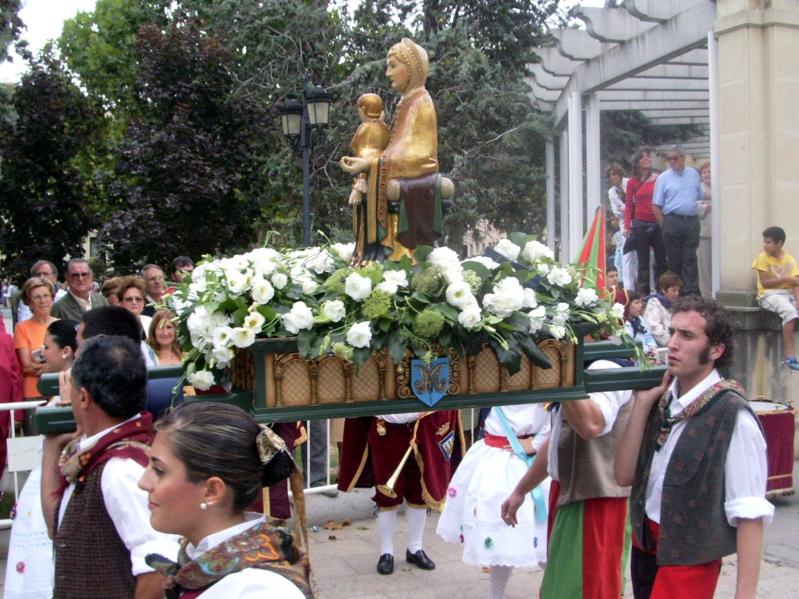 The Virgin of Valvanera (patron saint of La Rioja, Spain) is moved while in the local festivities of Logroño: "San Mateo".